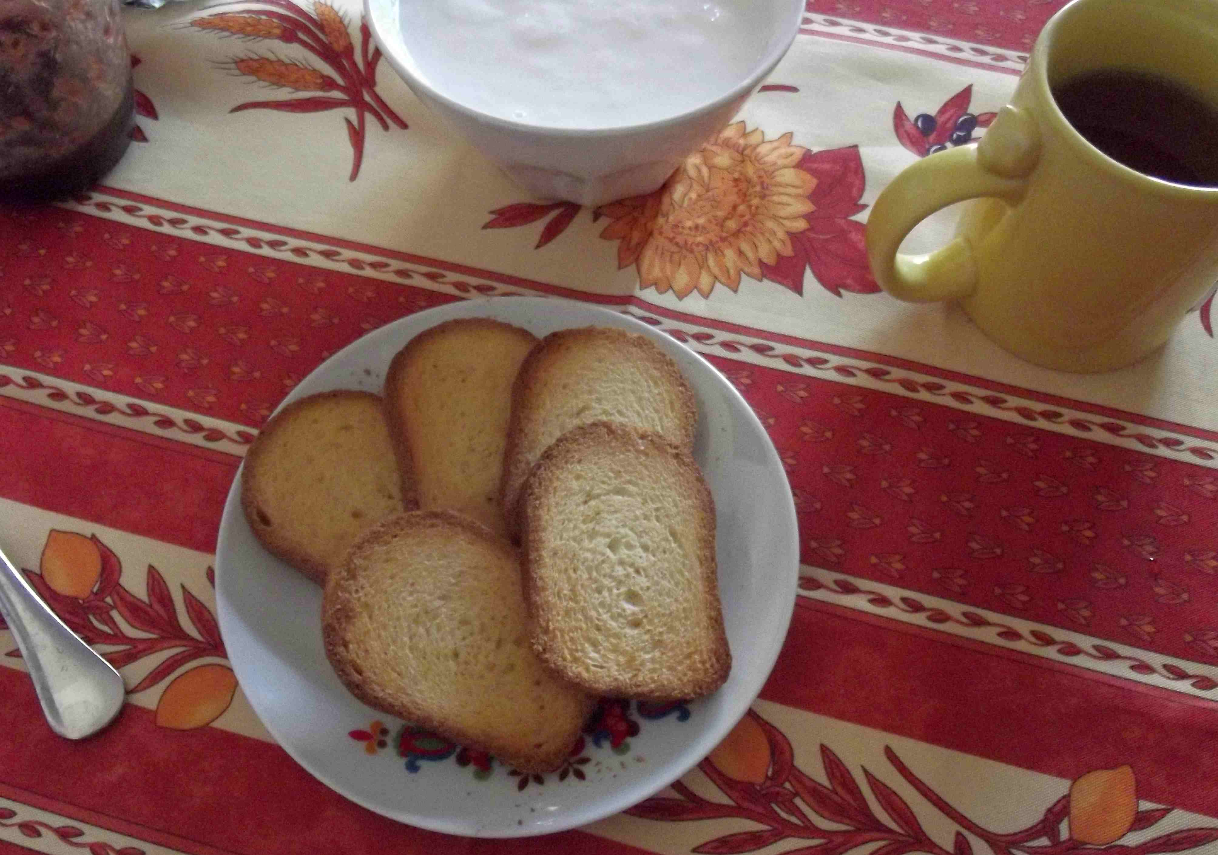 Biscotto salute with tea, home made kefir and jam